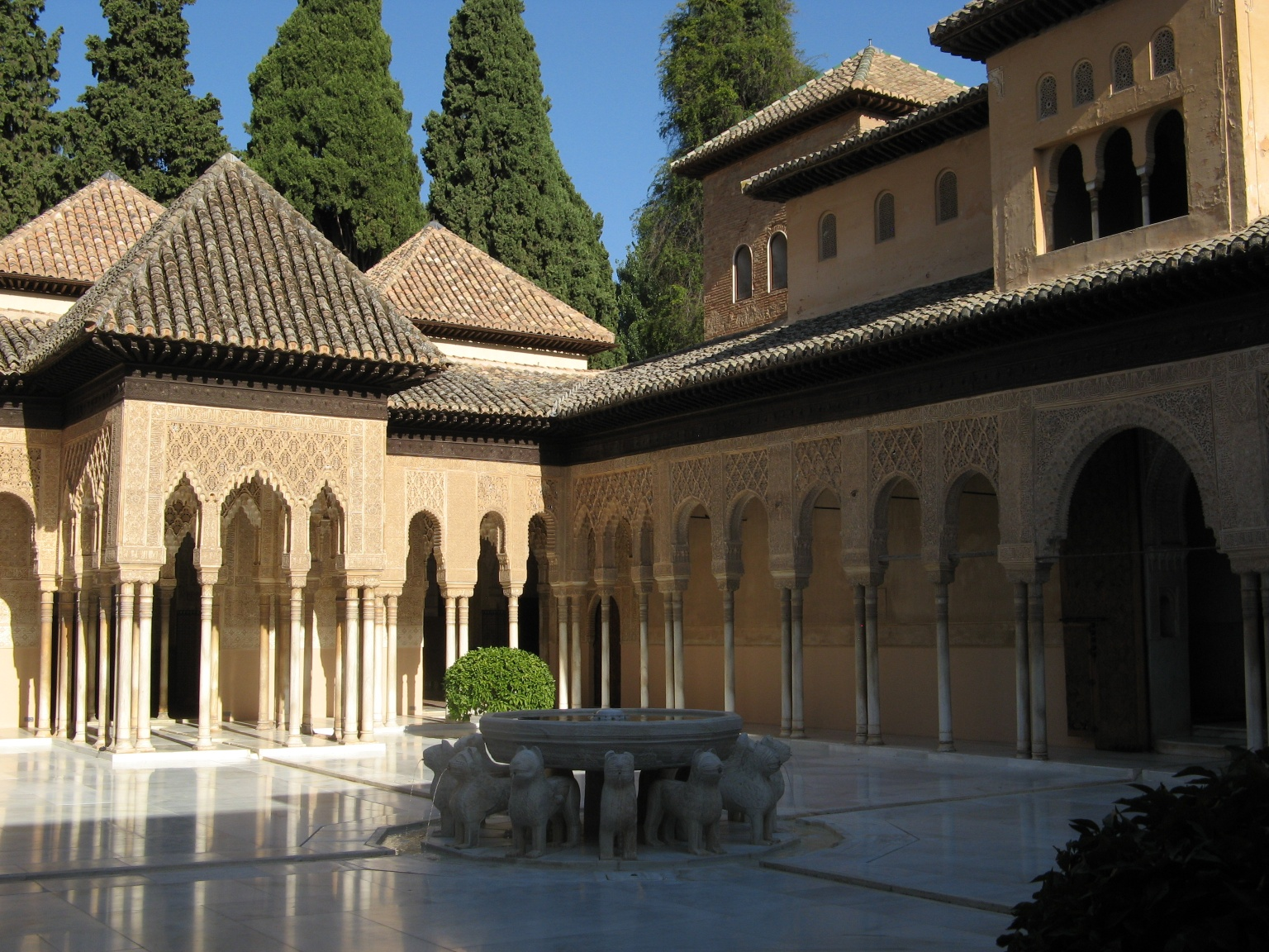 Alhambra's Patio de Leones (at Granada, Spain) after its refurbishment in July 2012